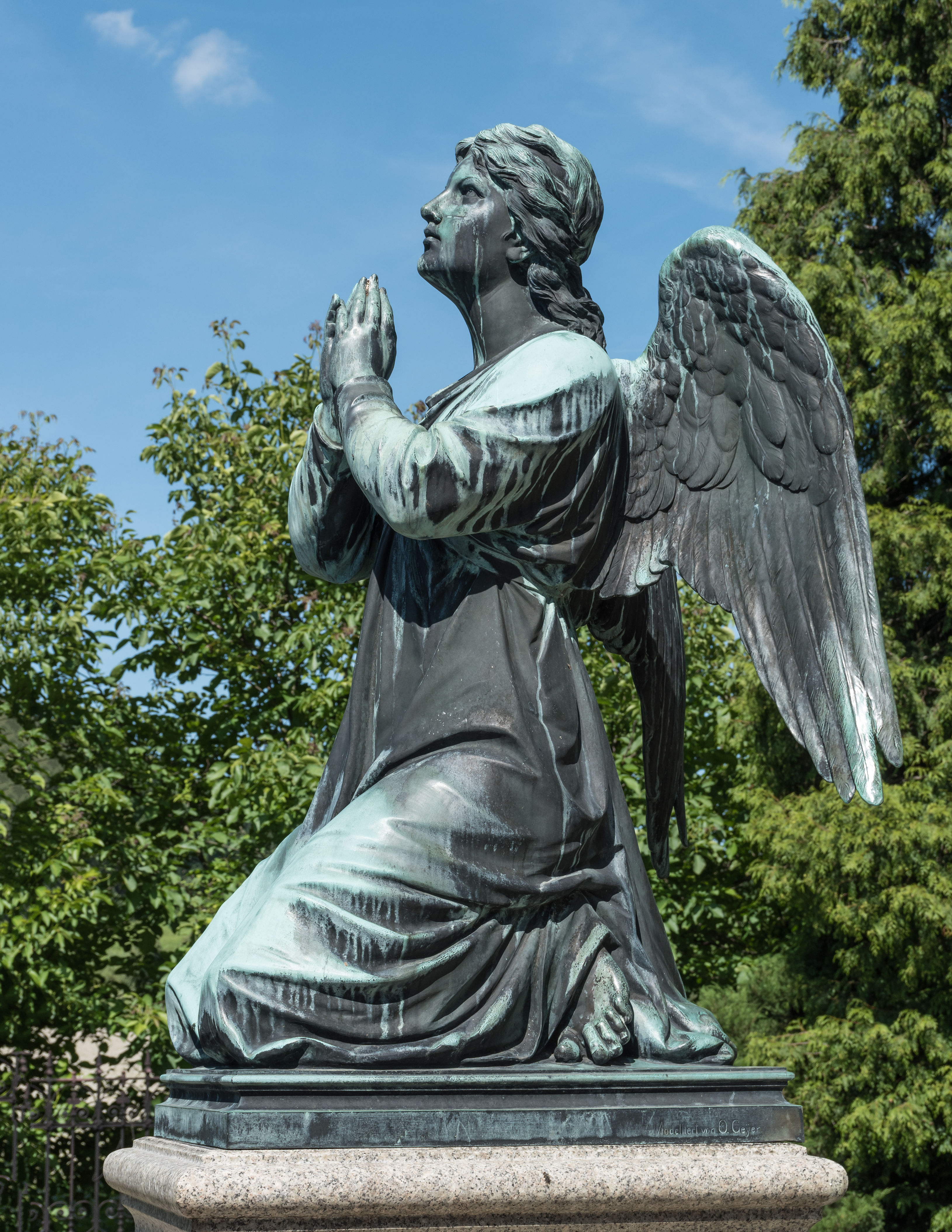 Angel in front of mausoleum of von Magnis family in Ołdrzychowice Kłodzkie Ta fotografia przedstawia zabytek wpisany do rejestru zabytków pod numerem ID 592580